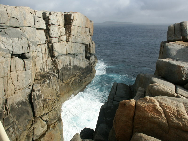 View of the Albany Gap, Western Australia